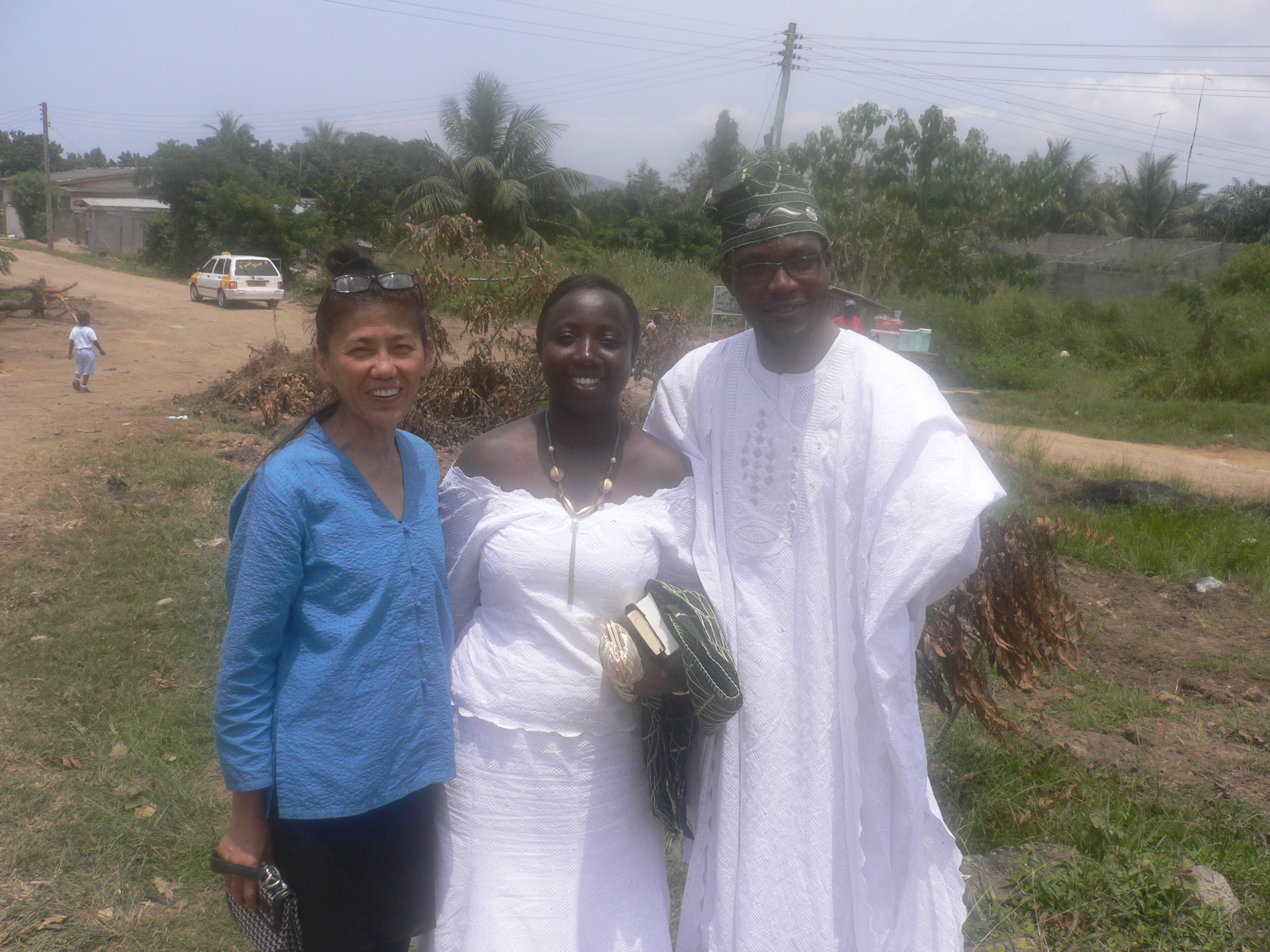 African wedding in Winneba, Ghana